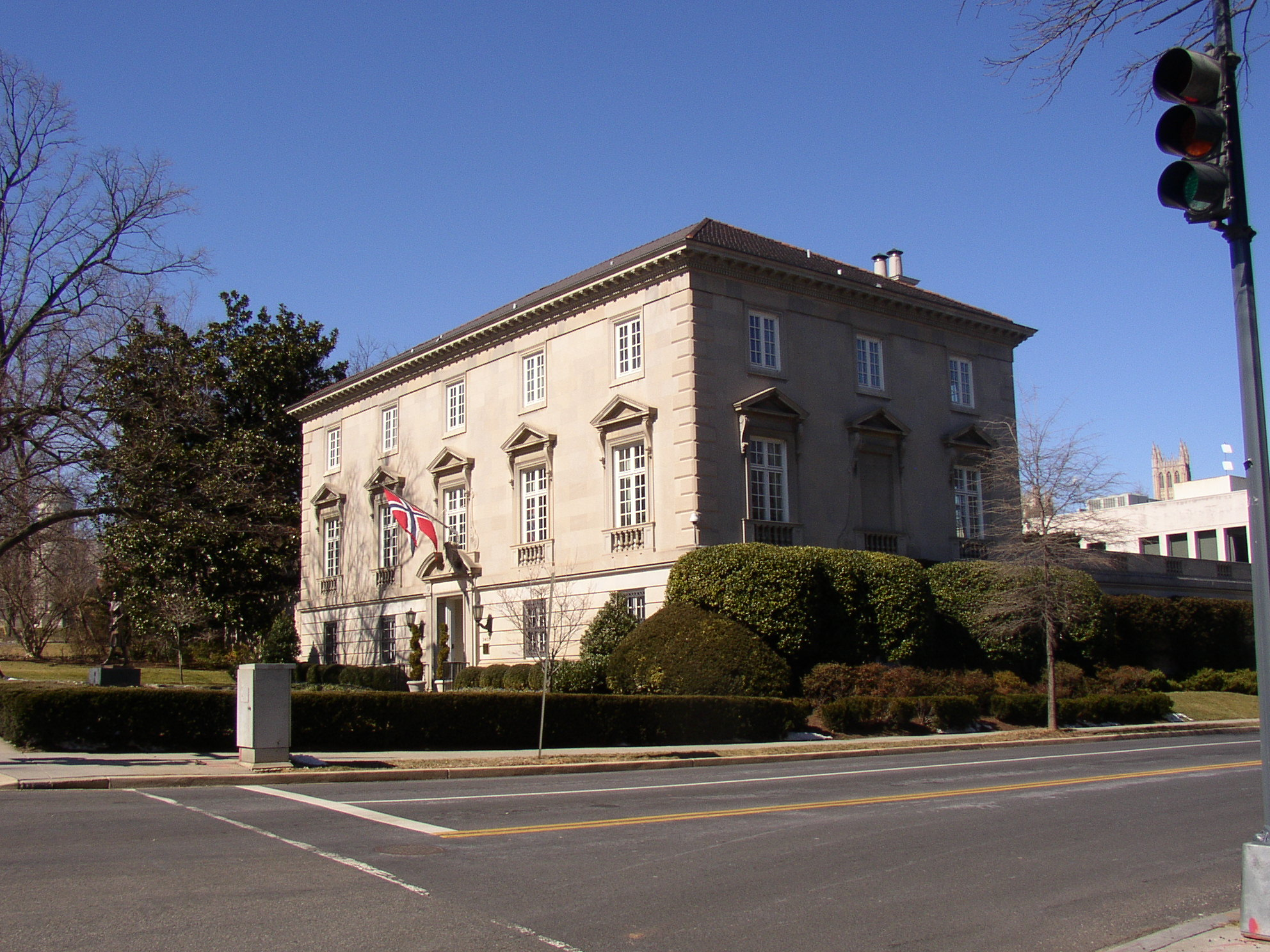 Norwegian Embassy. Photo taken by uploader on a cold February day of 2007. Will be used for List of Washington, D.C. embassies. All rights released. Williamborg 00:11, 25 February 2007 (UTC)